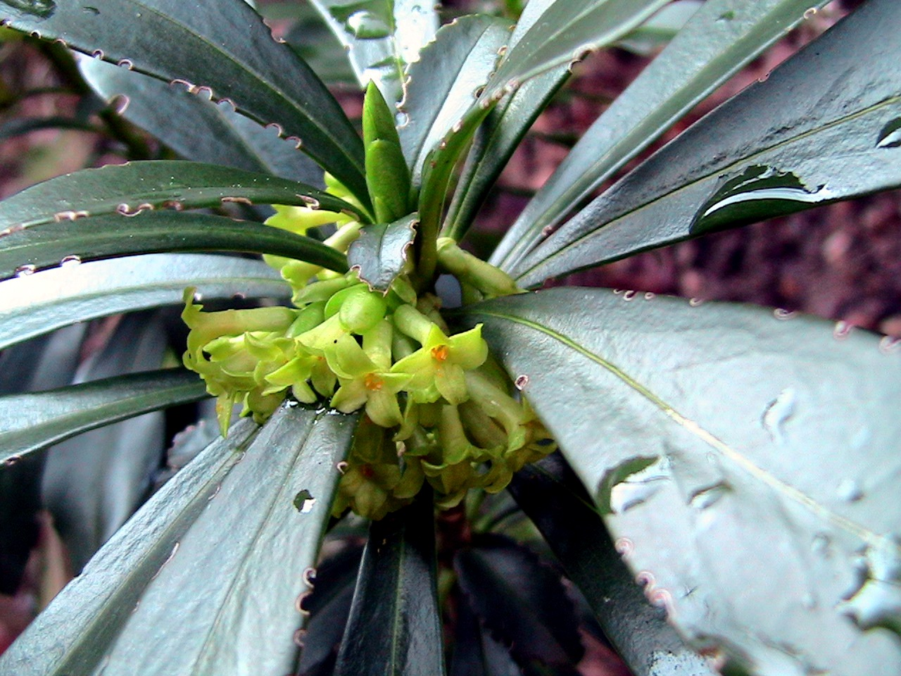 Daphne laureola. In Guixers (Solsonès-Catalunya). To 925 m. altitude